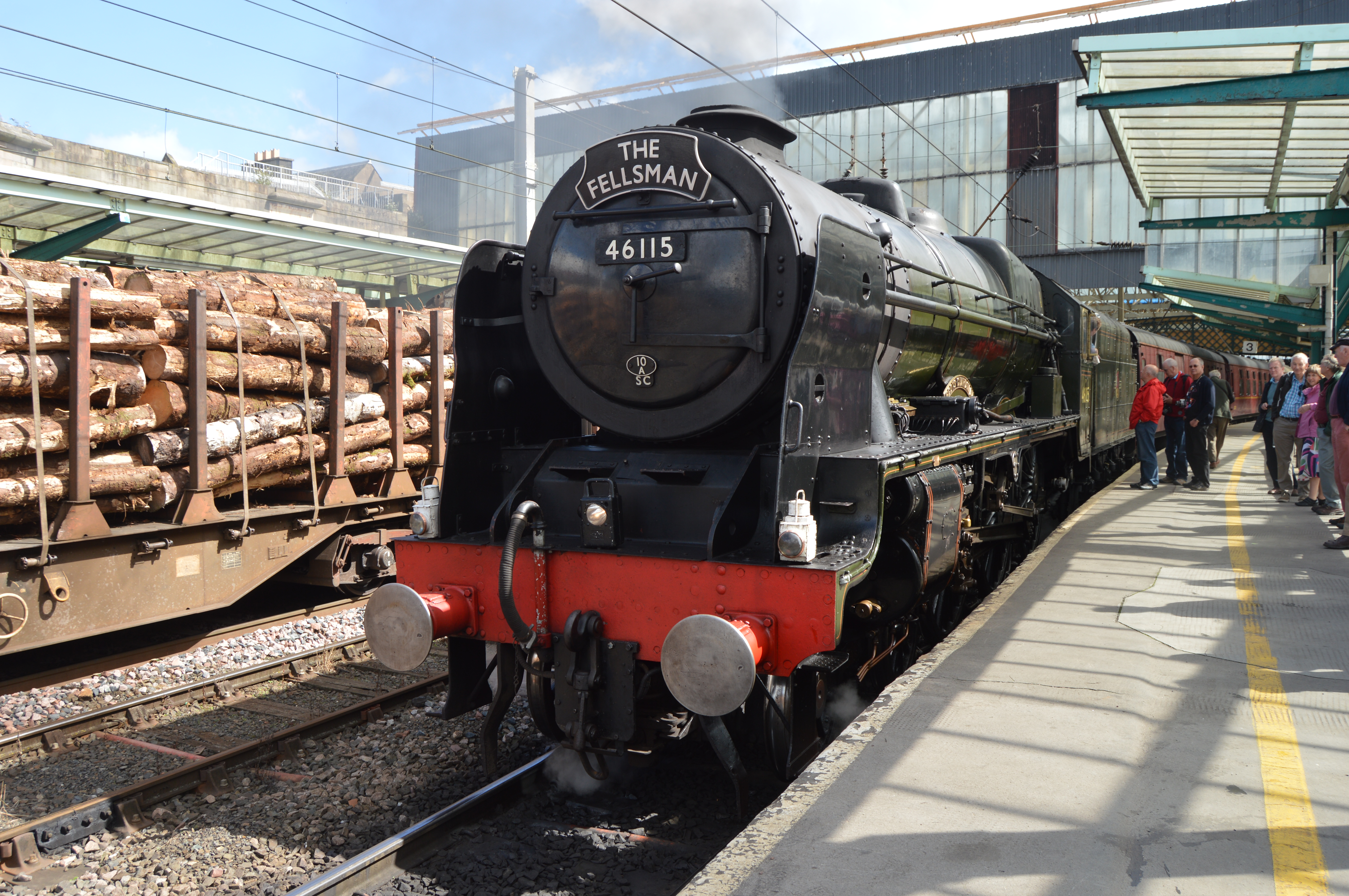 LMS 46115 Scots Guardsman at Carlisle after working the Fellsman up the S&C on Wed 26th August 2015.